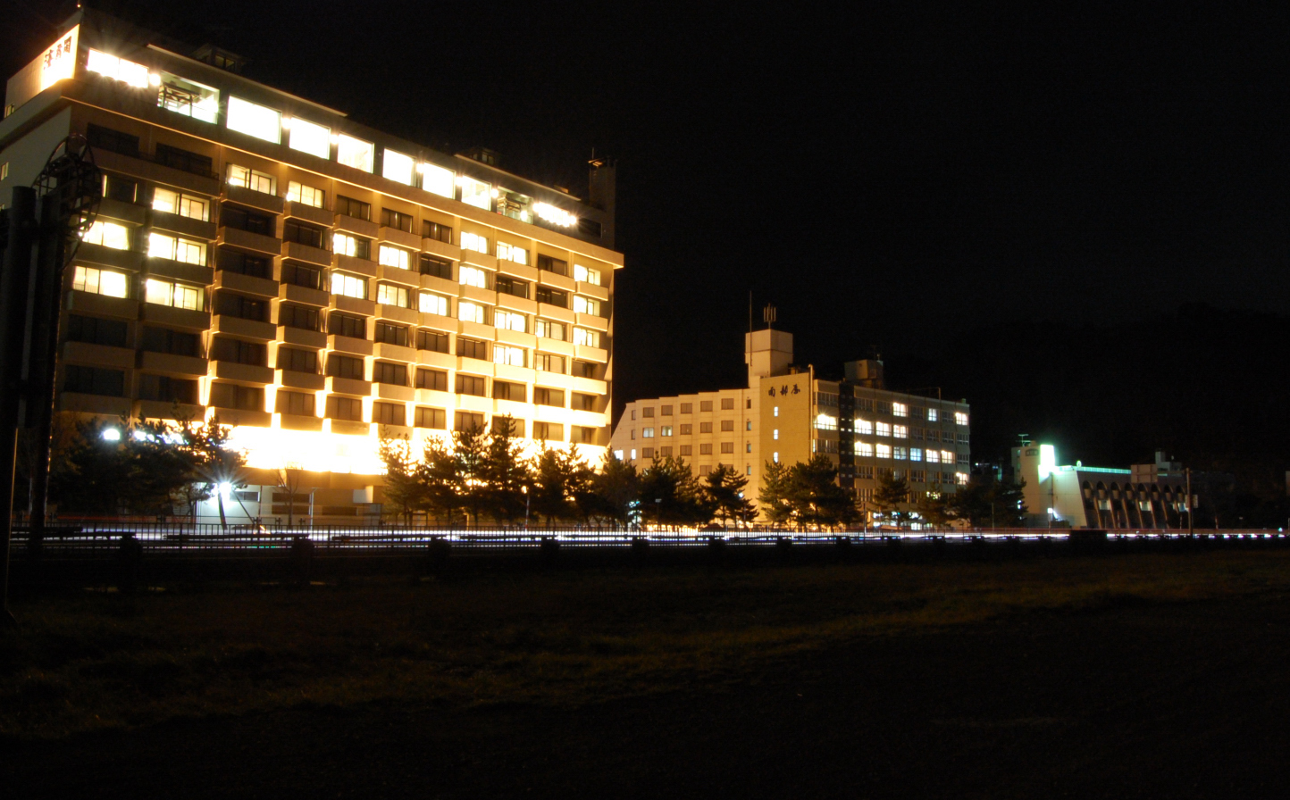 Asamushi Onsen. Nikon D40